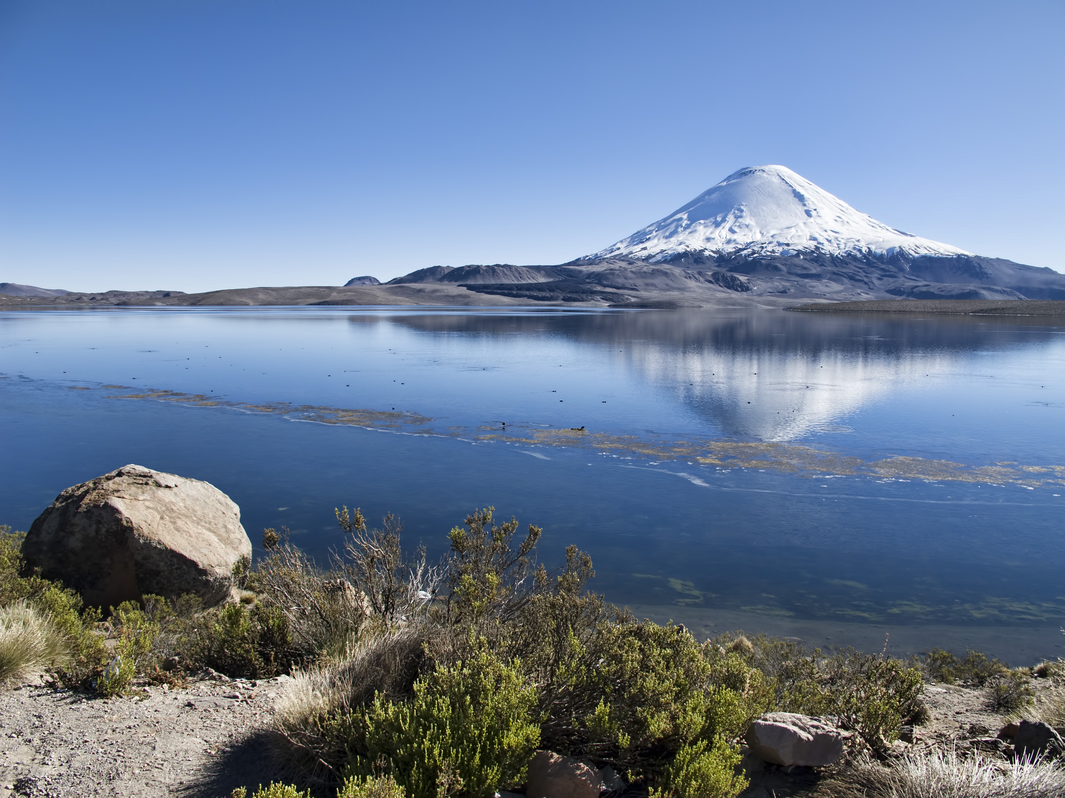 Snow-capped volcano Parinacota (6,348 m/20,827 ft) reflected in Lake Chungará (Lago Chungará), one of the highest lakes in the world at around 4,500 m (14,800 ft), in Lauca National Park (Parque Nacional Lauca). On Google Earth: Lake Changará 18°14'52.05"S, 69° 9'28.42"W